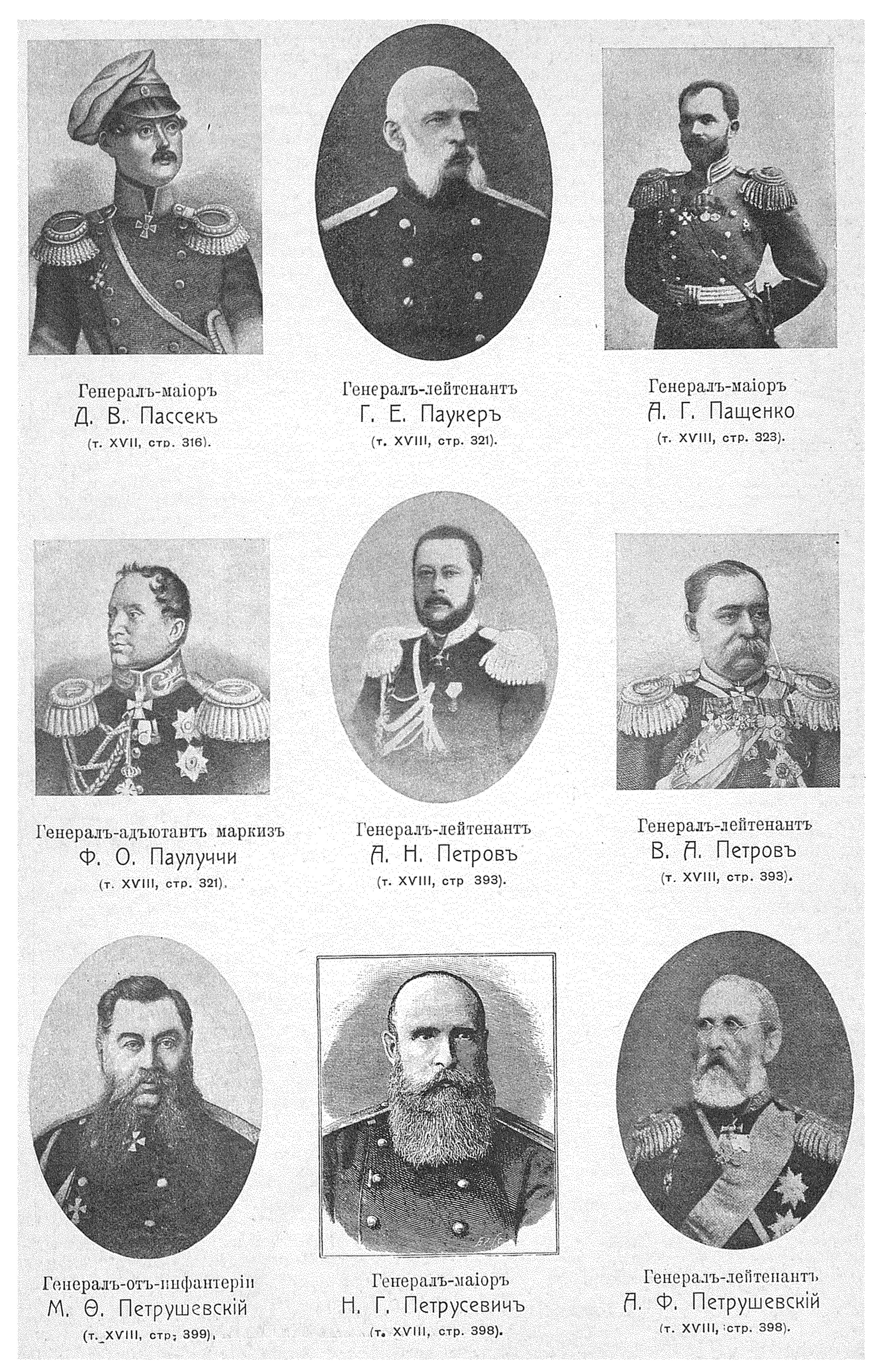 Generals of the Russian Empire